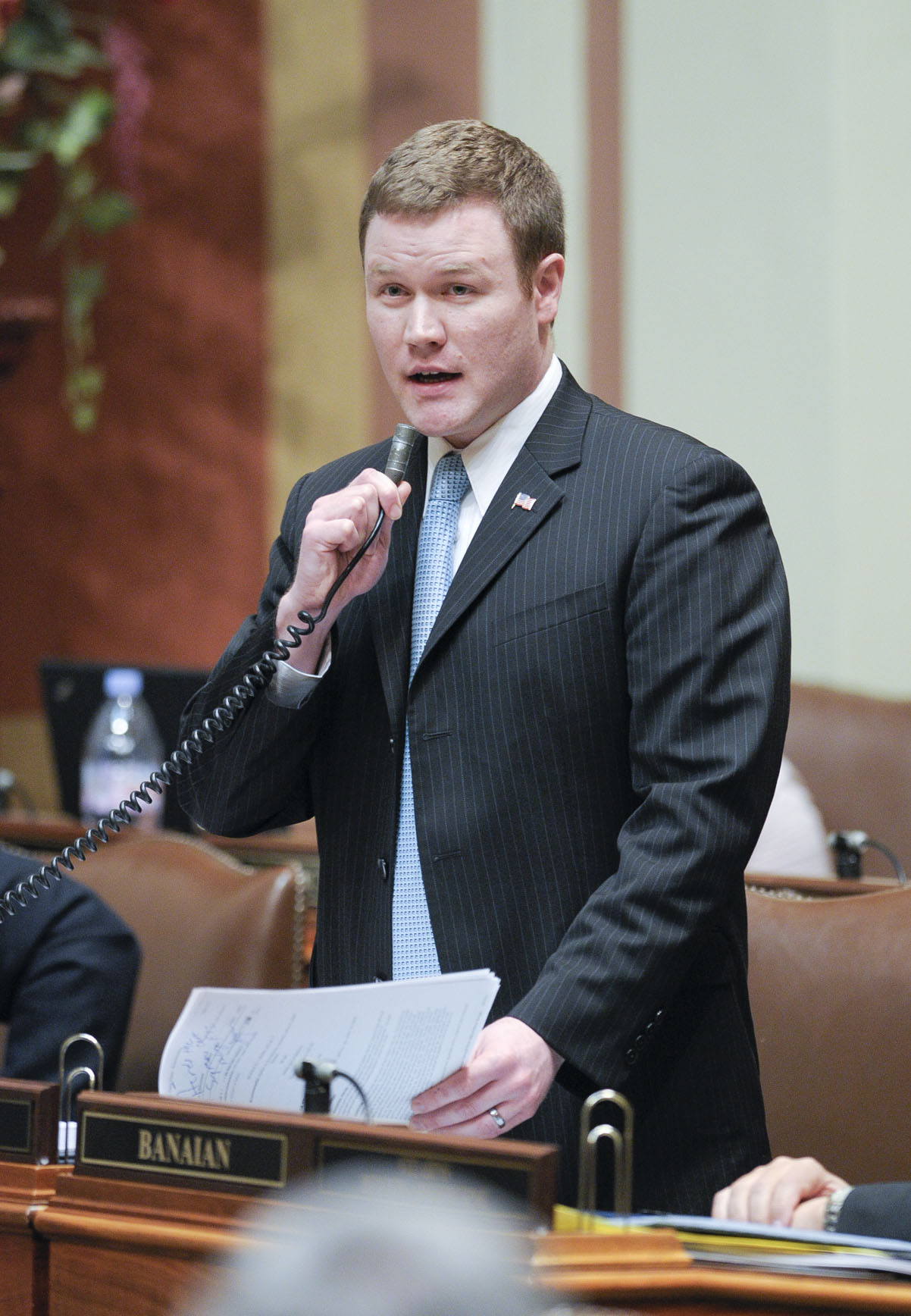 Doug Wardlow speaks on the floor of the Minnesota House of Representatives in 2011